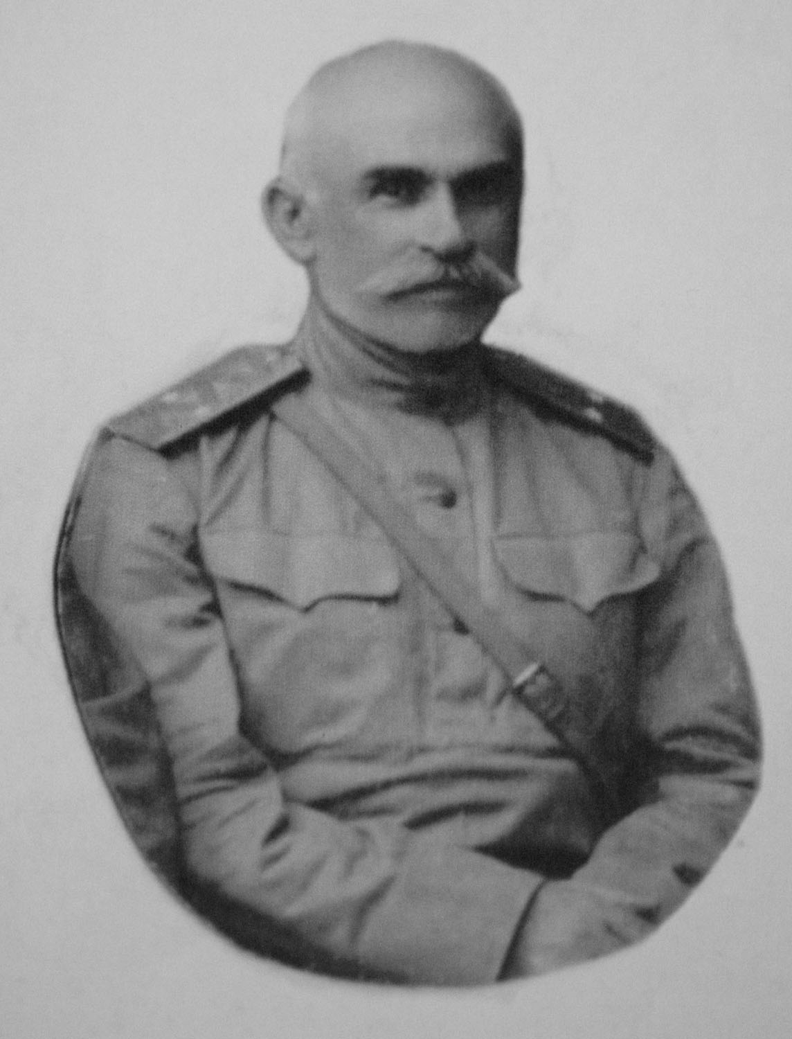 Movses Silikyan